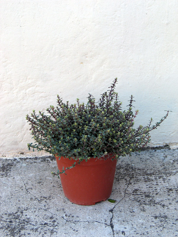 Plant de marjolaine Marjoram plant